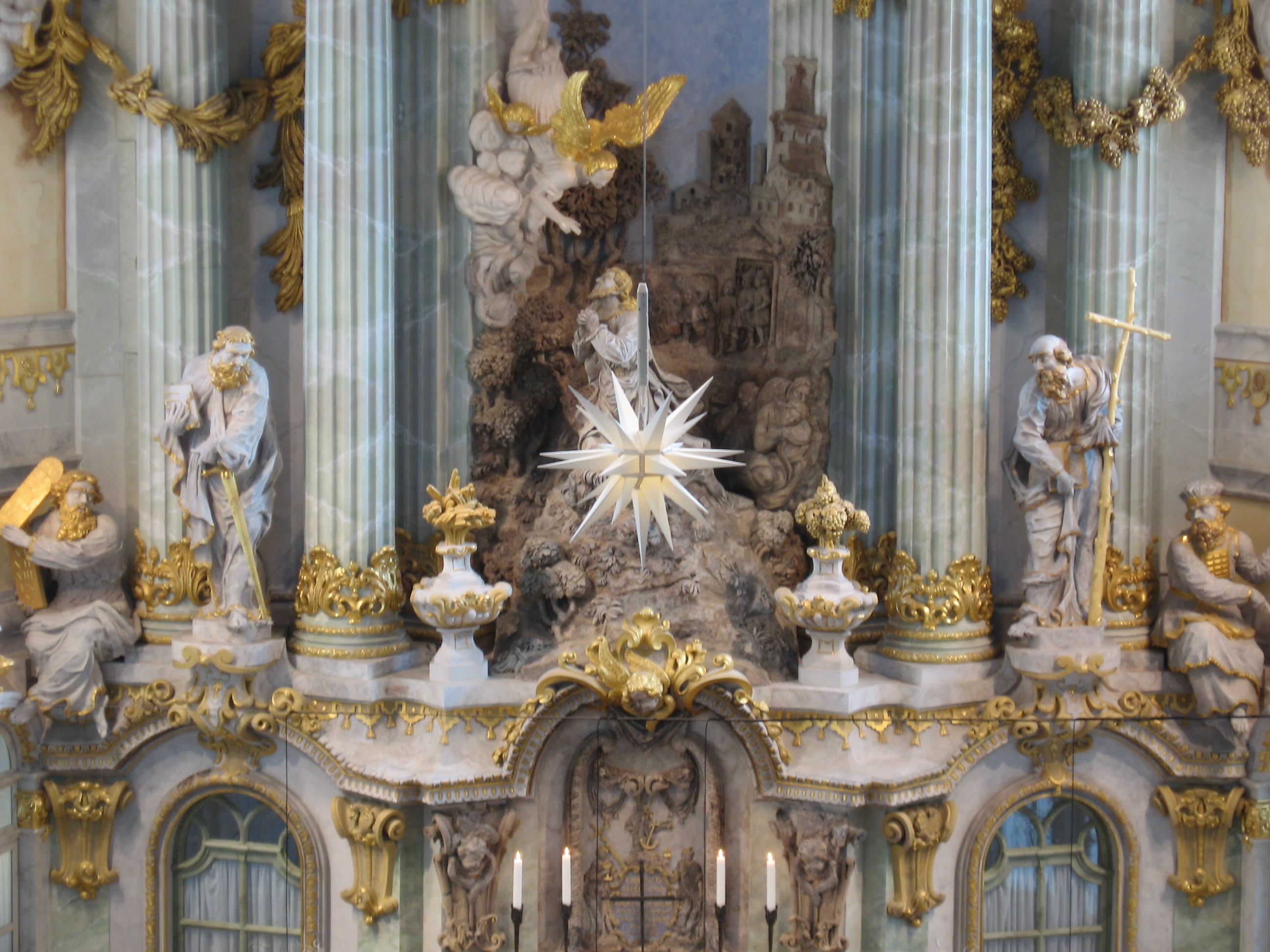 The Our Lady's Church (Frauenkirche) in Dresden